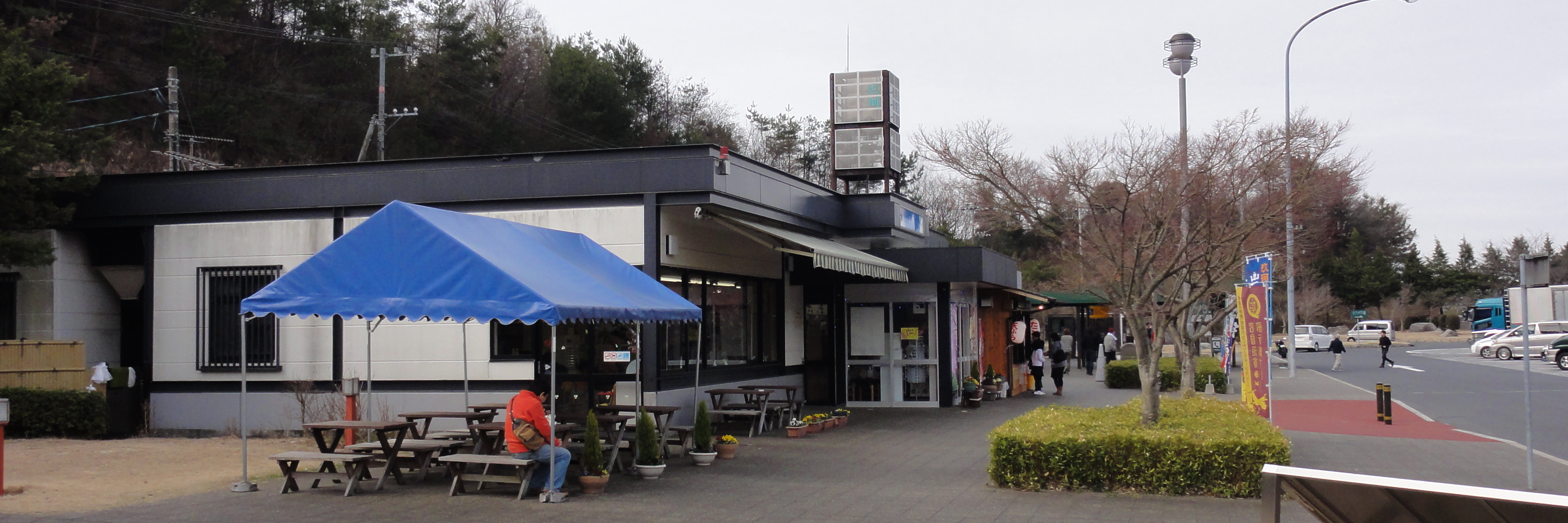 Kuga Parking Area,Yamaguchi pref..,Japan